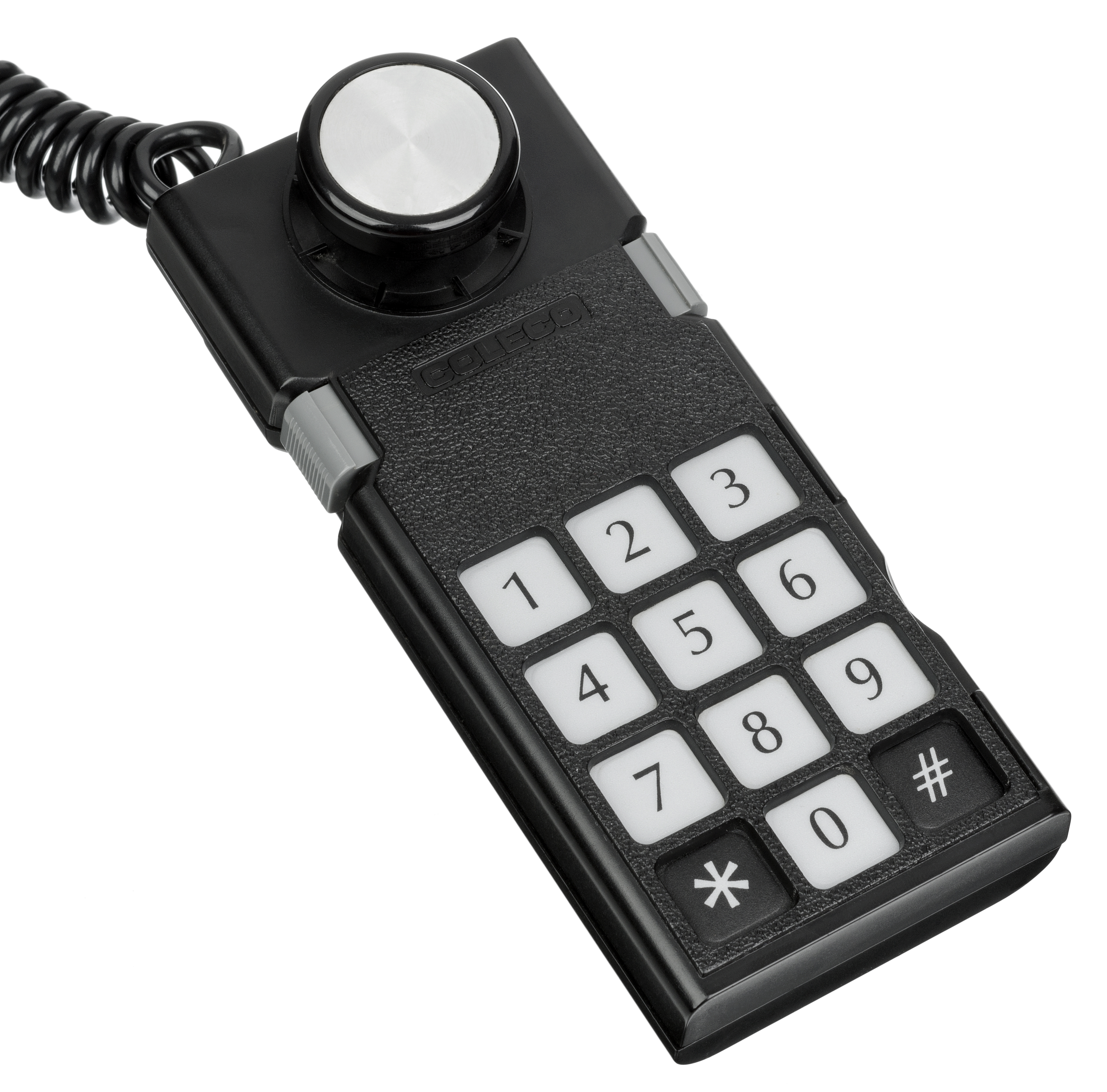 The controller for the ColecoVision console, a second generation gaming console released in 1982 by Coleco Industries. The ColecoVision faced off against the older Atari 2600, and enjoyed moderate success when released due to its higher quality arcade ports. By 1983, however, the video game industry crash greatly hurt all gaming console manufacturers, leading to Coleco Industries bowing out of the gaming industry by 1985.